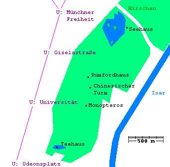 Map of the Englischer Garten (Munich) in Munich, Germany